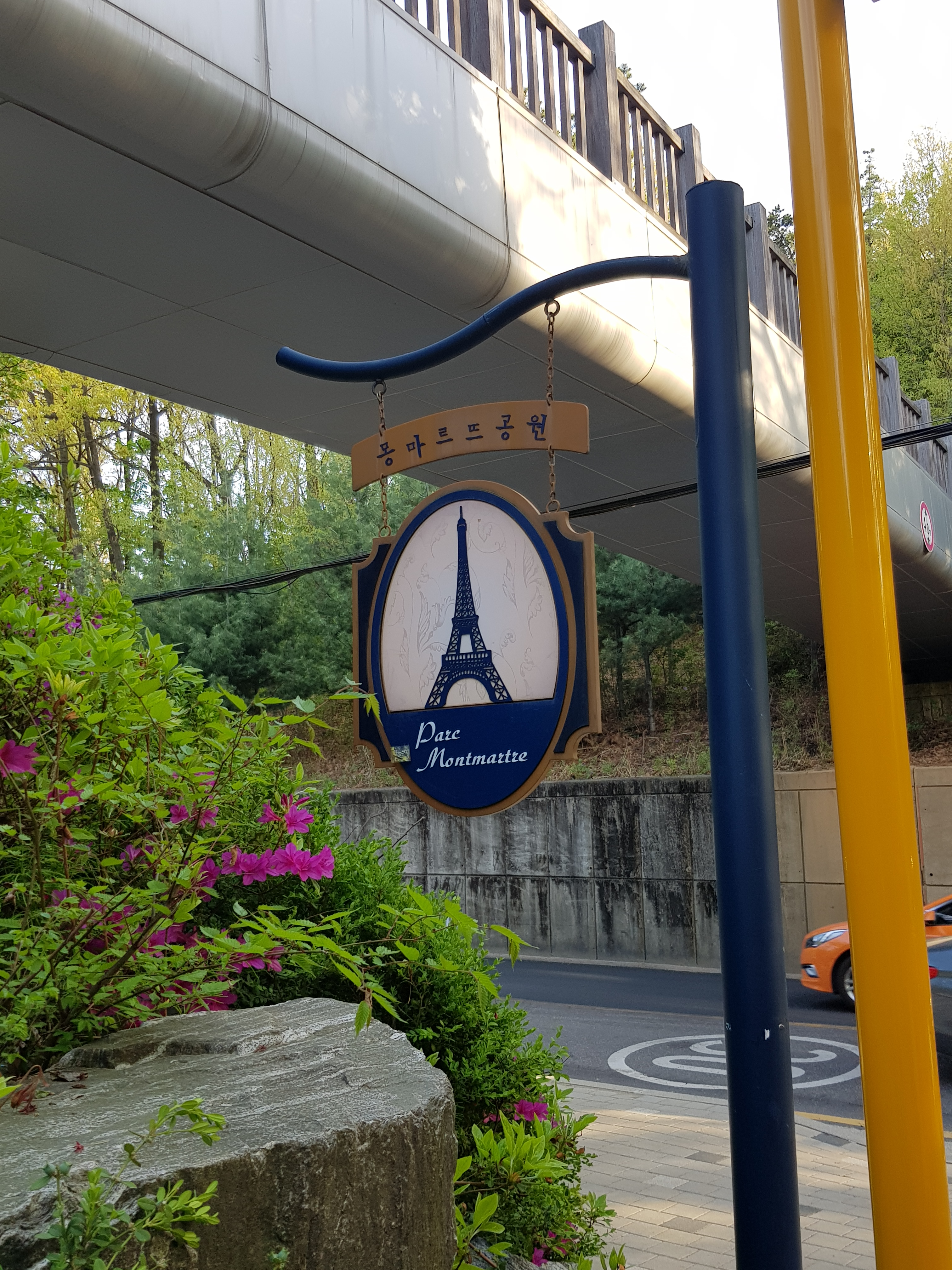 Entrance of Montmartre Park in Seorae Village, Seoul